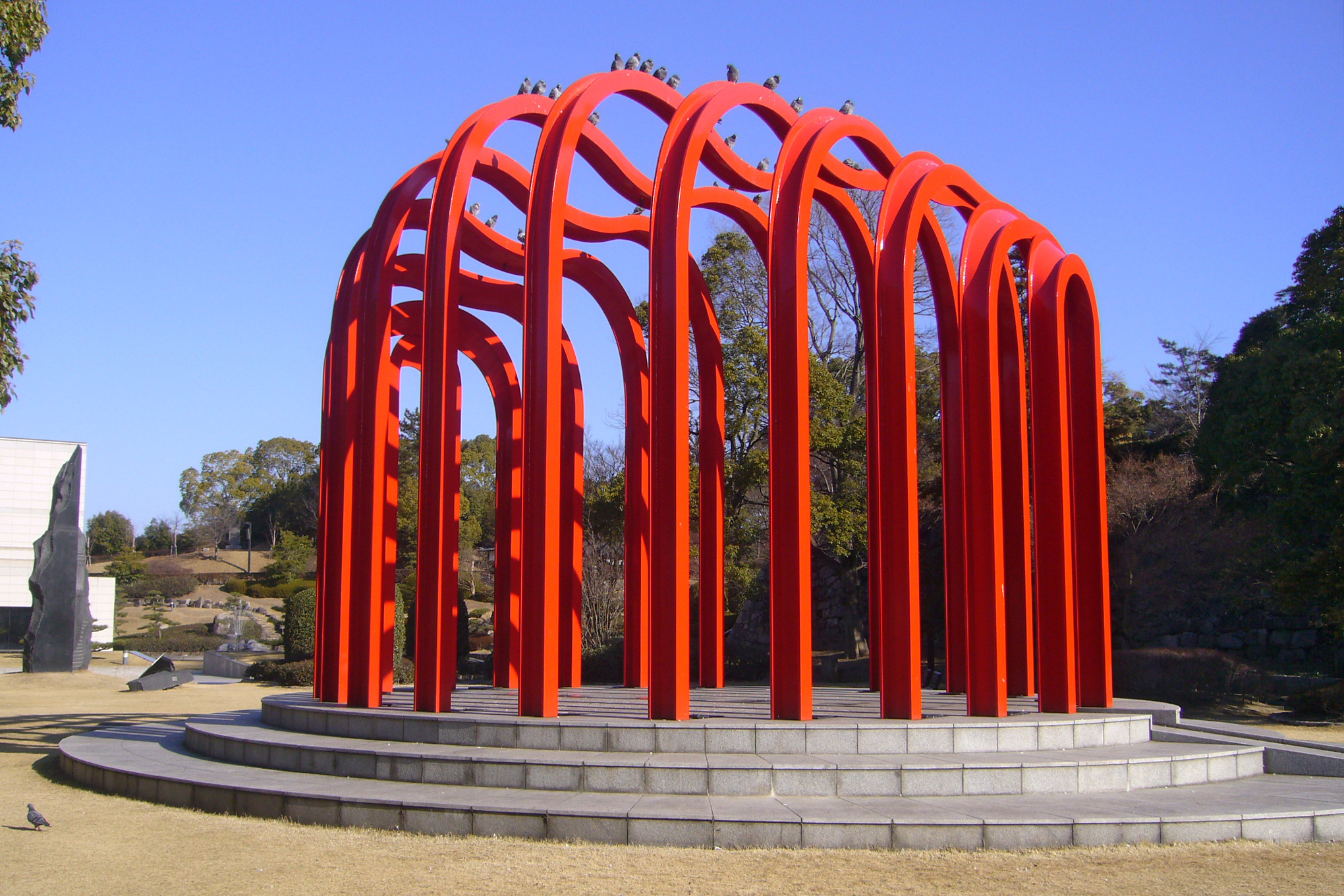 Fukuyama Museum of Art in Fukuyama, Hiroshima prefecture, Japan